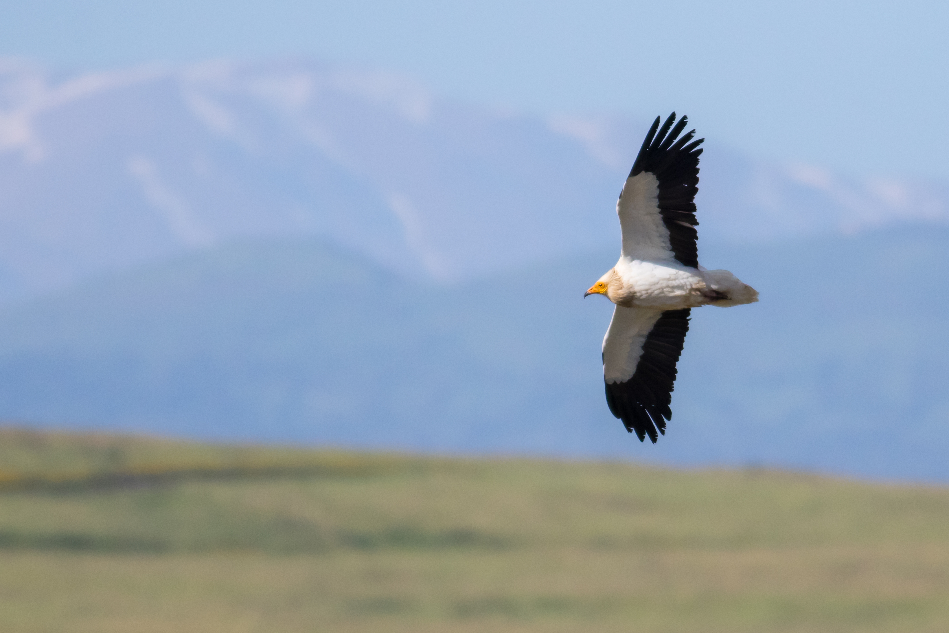 Egyptian vulture, at the back - Mount Hermon, Israel.